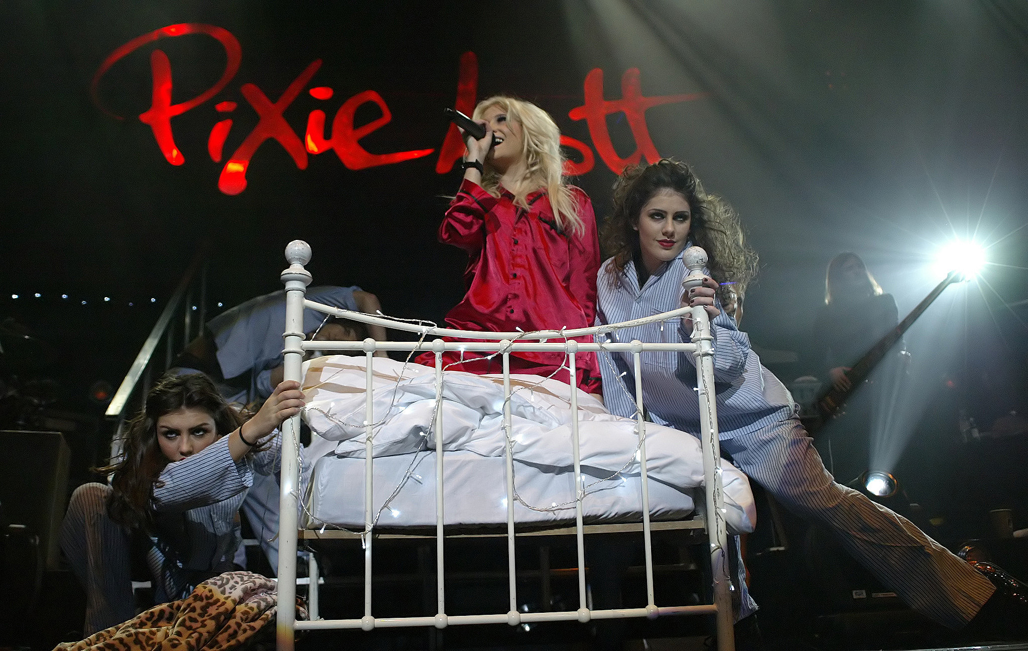 Pixie Lott performing on The Crazy Cats Tour, December 13, 2010 at the Sheffield City Hall in Sheffield, England.